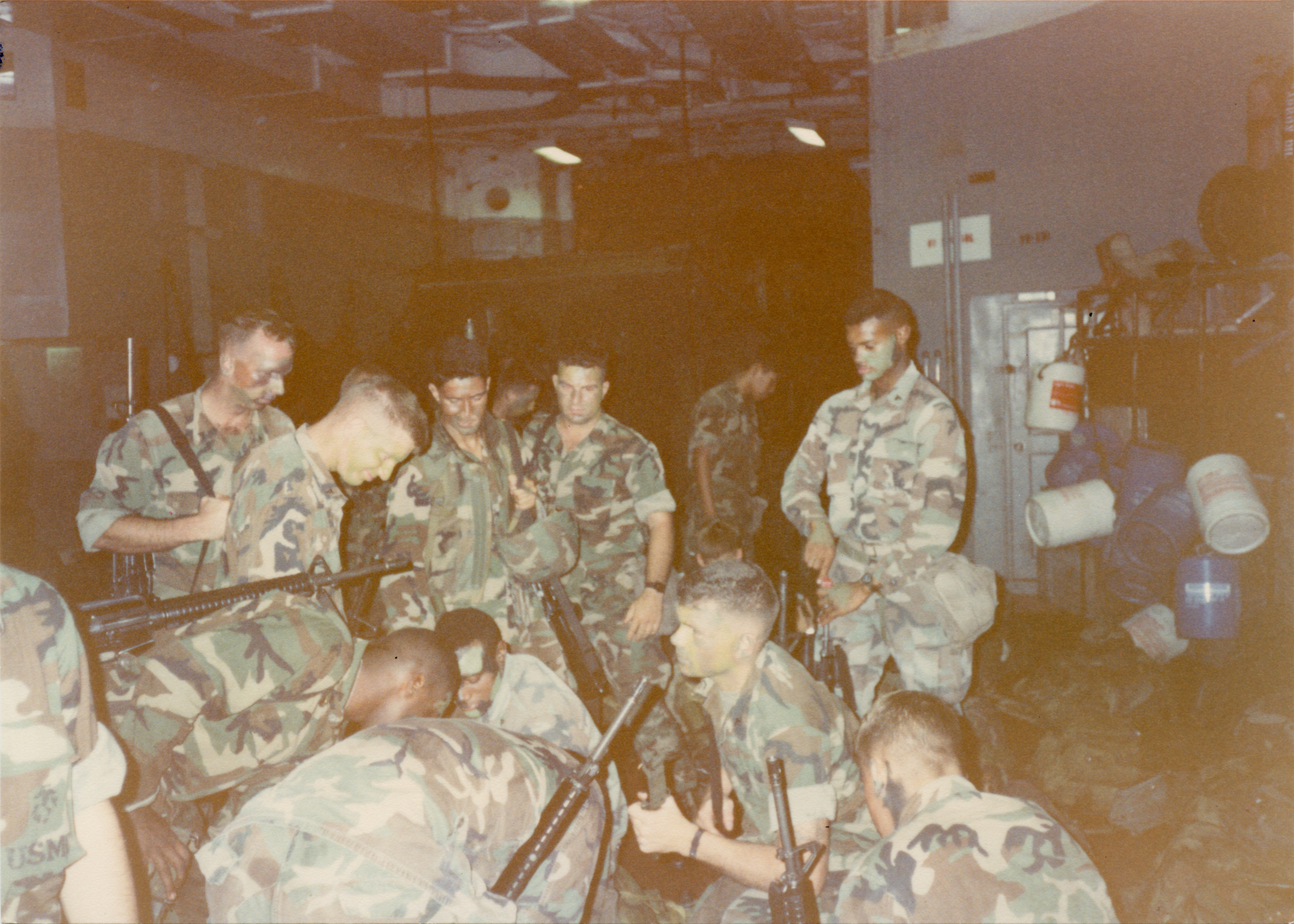 1st Platoon, A Company, 1st Battalion, 3rd Marines in the well deck of the USS Tuscaloosa (LST-1187). The Marines and Sailors of 1st Battalion, 3rd Marines were conducting last minute preparations before boarding Assault Amphibious Vehicles to land on Green Beach, Philippines in December 1989.